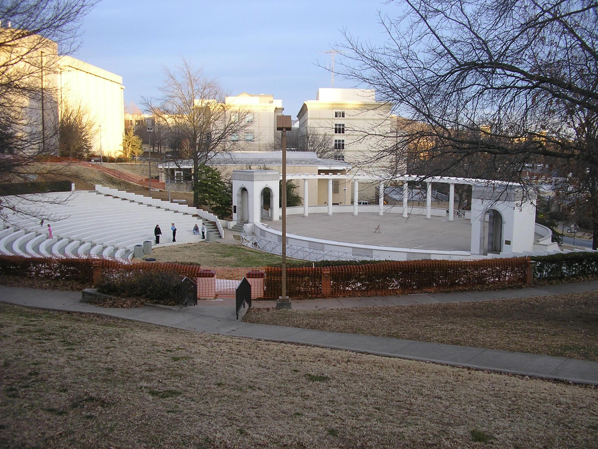 Chi Omega Greek Theater, University of Arkansas.